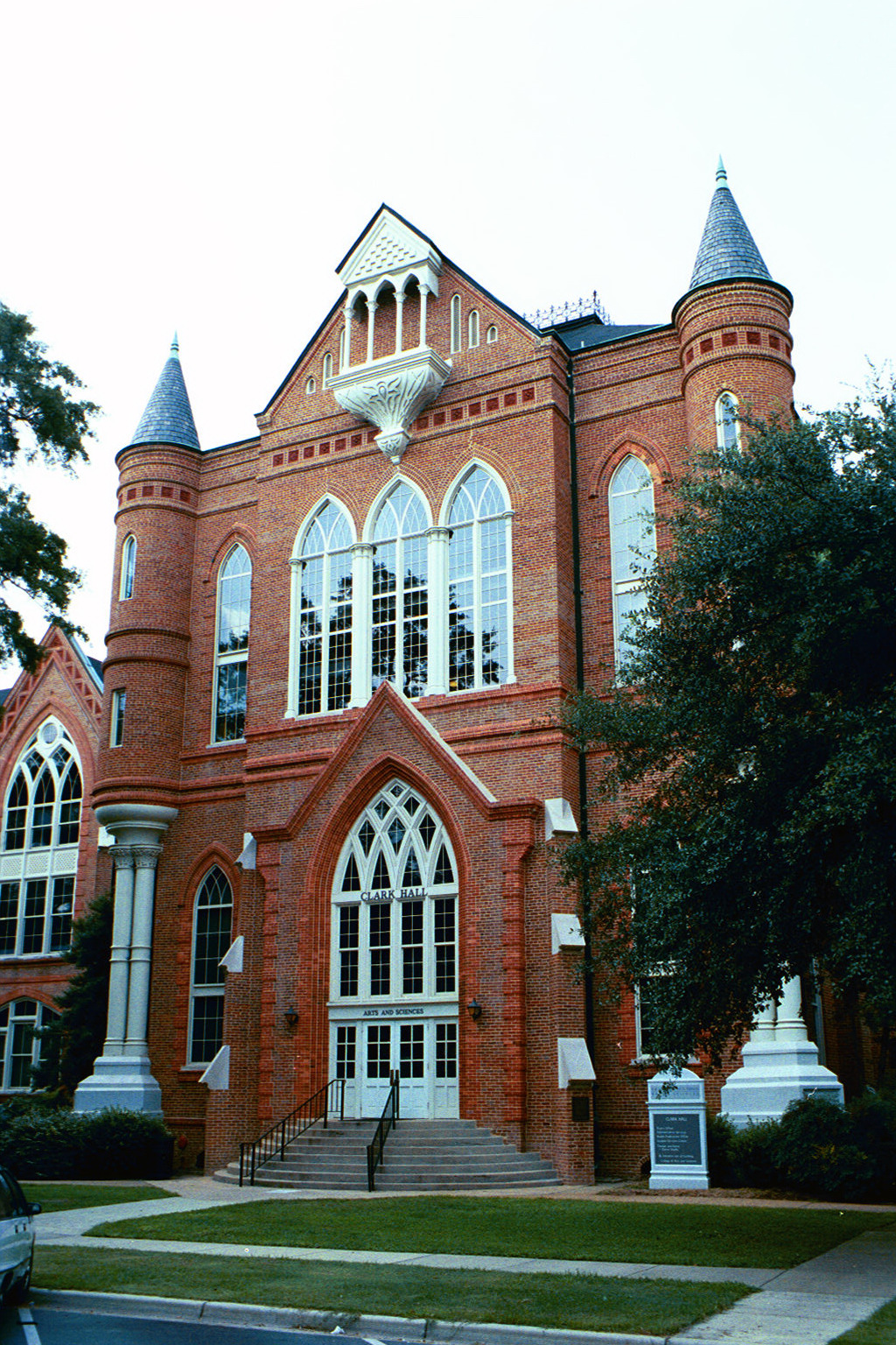 Clark Hall, home of the College of Arts and Sciences, at the University of Alabama Author: John C. Watkins V